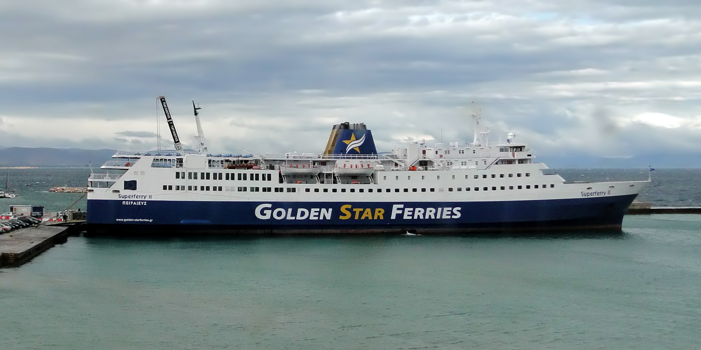 The Superferry II from the Golden Star Ferries company, Greece